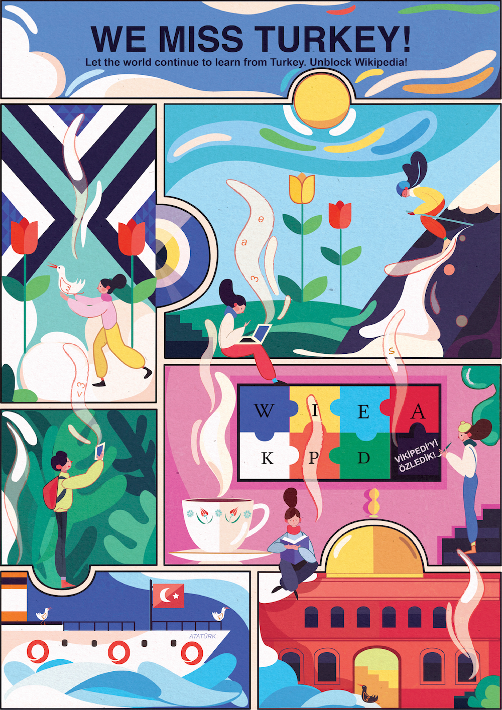 A poster made by Turkish artist Sibel Akgün to support the "We Miss Turkey" campaign of March 2018. This work was commissioned by the Wikimedia Foundation and has been licensed accordingly under Creative Commons